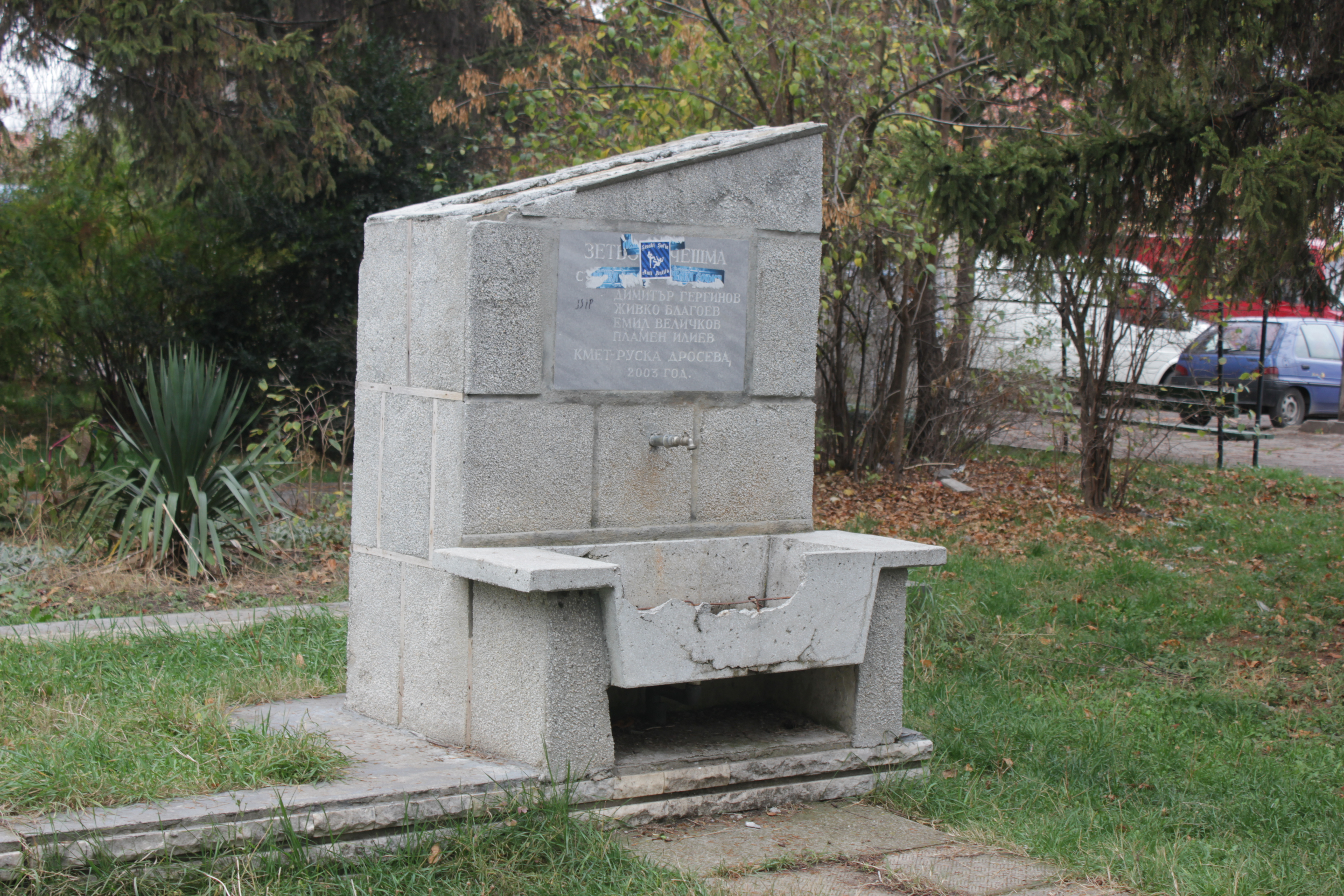 Son in law fountain in Mramor